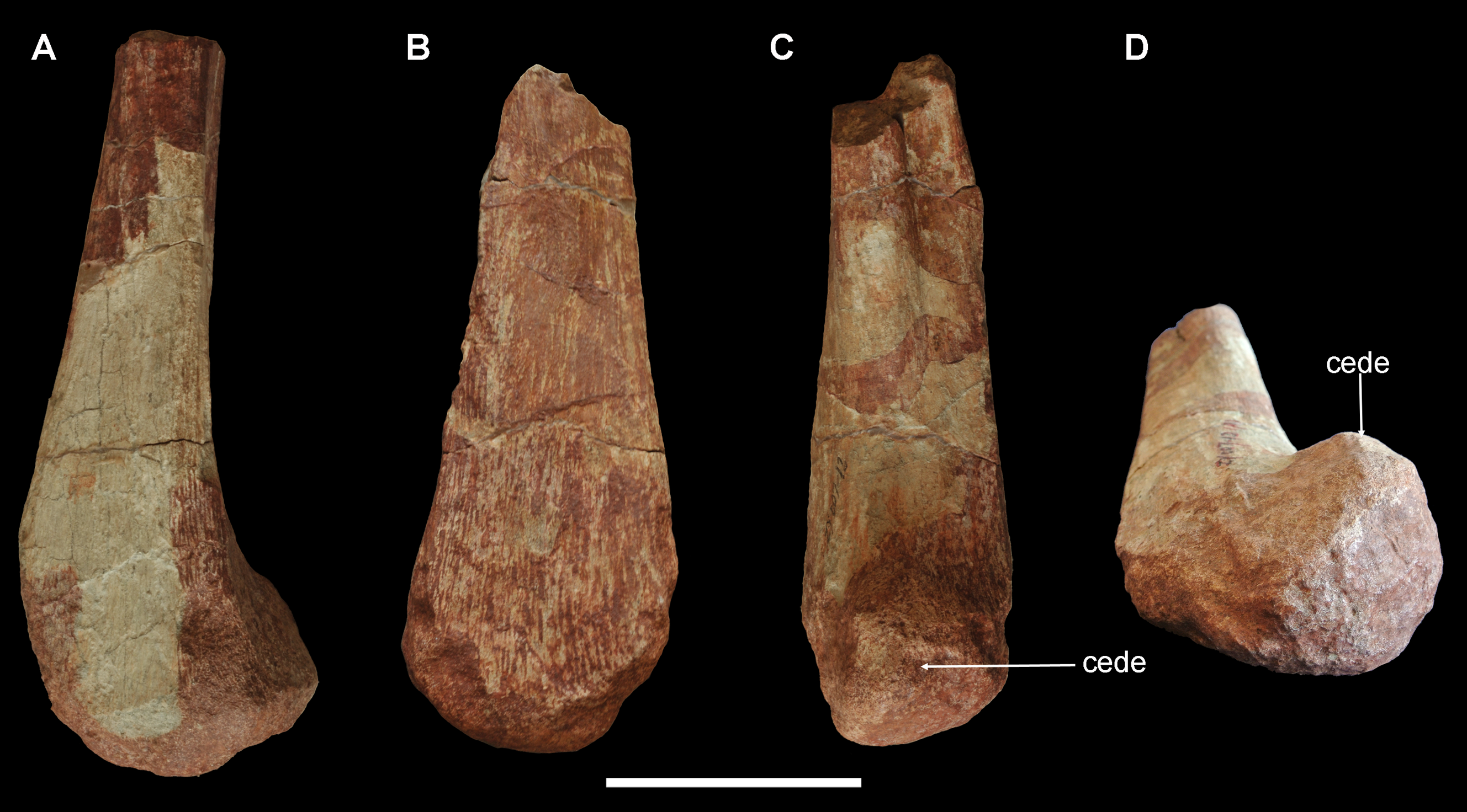 Distal portions of ischia of Yunganglong datongensis (SXMG V 00001). (A, C)-Distal portion of left ischium in (A) medial and (C) cranial views. (B, D)-Distal portion of right ischium in (C) medial and slightly caudal and (D) distal and slightly dorsal views. Abbreviation: cede, cranially expanded distal end. Scale bar = 10 cm.